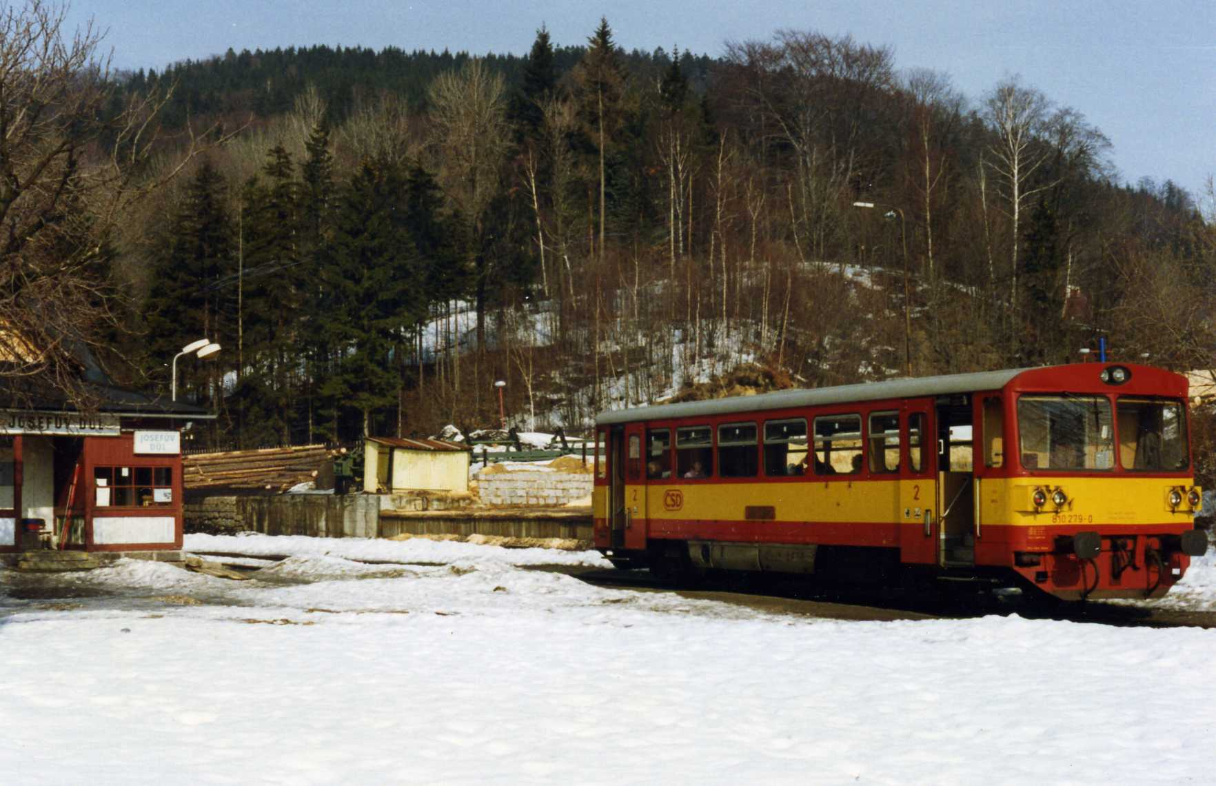 Czech railcar 810 279-0 at Josefův Důl - the end of quite a spectacular little branch line from the Jablonec nad Nisou and Liberec line. The railcar is still in the livery of the united Czechoslovak railways ?SD. Josefův Důl station was known as Josefsthal - Maxdorf by the German speaking population before 1945. Line opened 1894. Photographed, unknowingly at the time, in the centenary year.